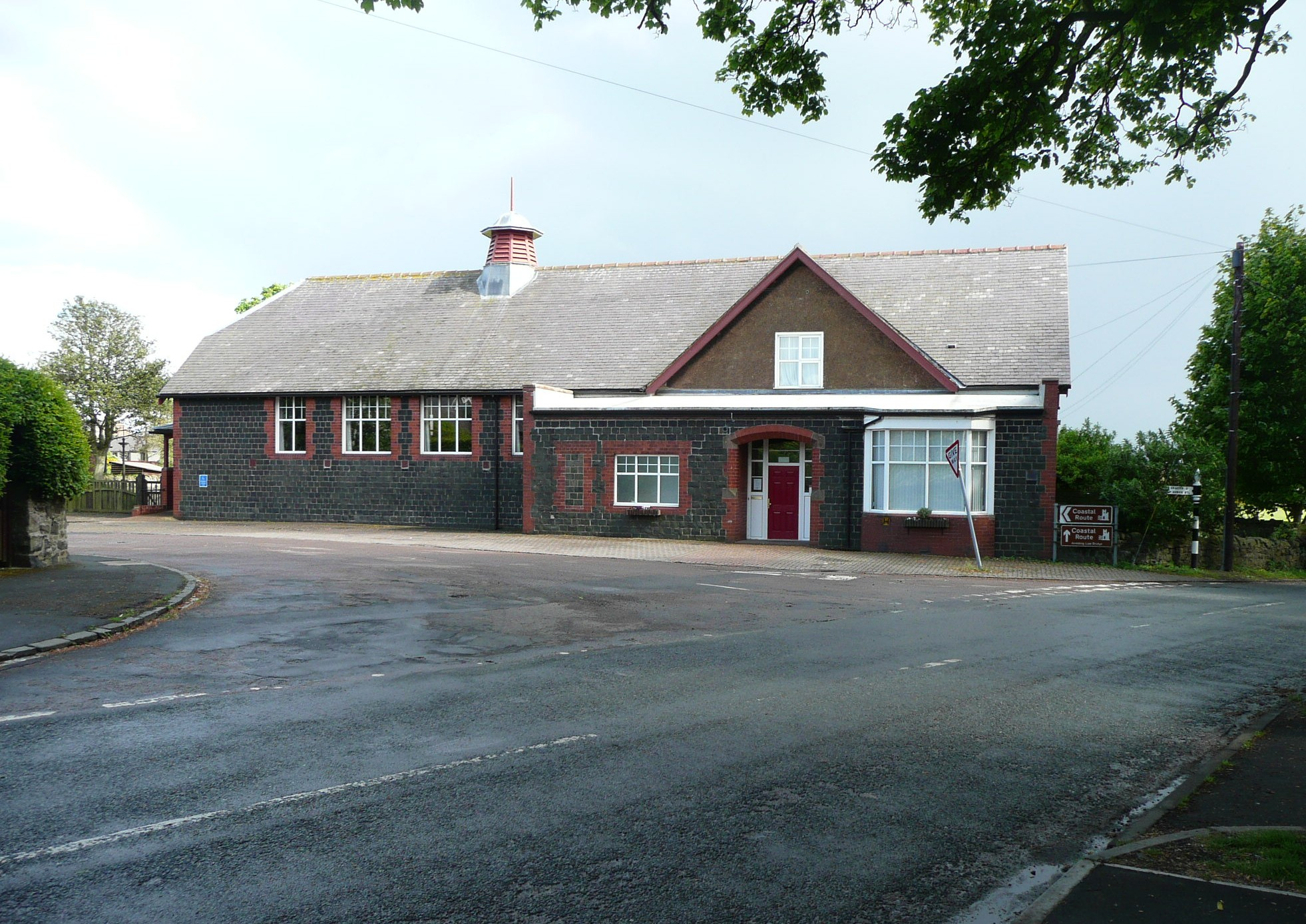 The Creighton Memorial Hall, Embleton